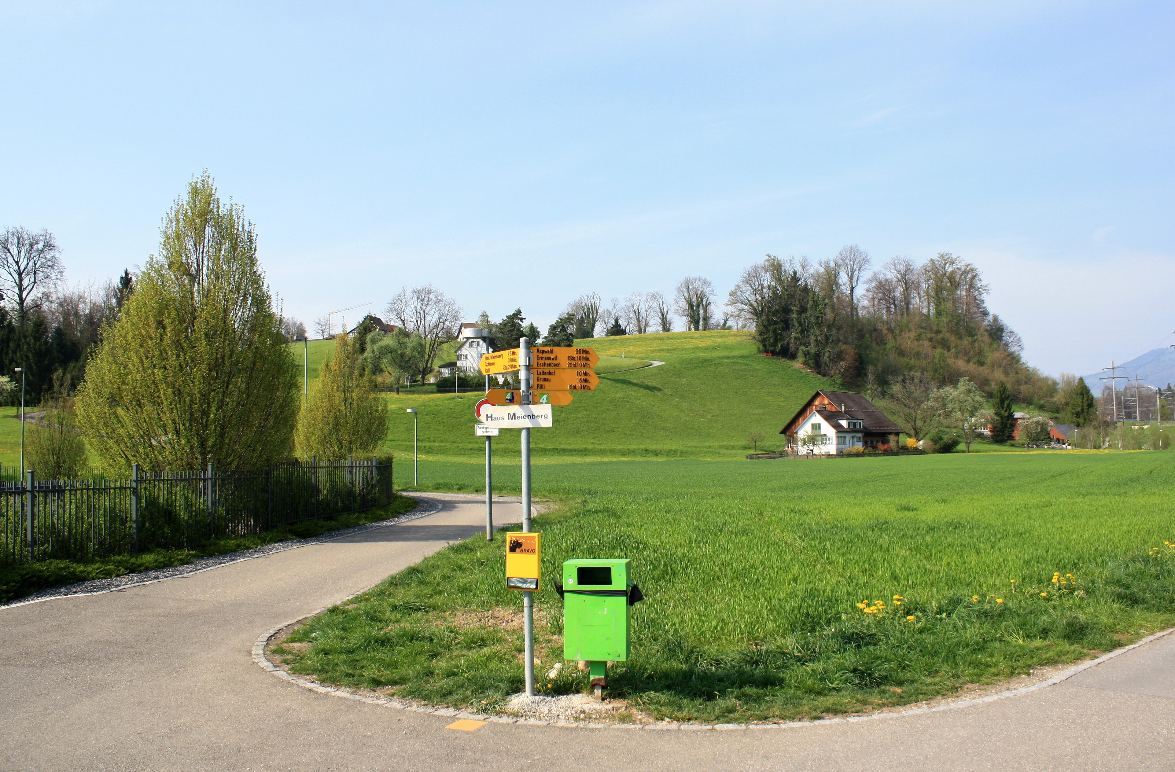 Meienberg nearby Rapperswil respectively Jona (Switzerland), as seen from Jona.